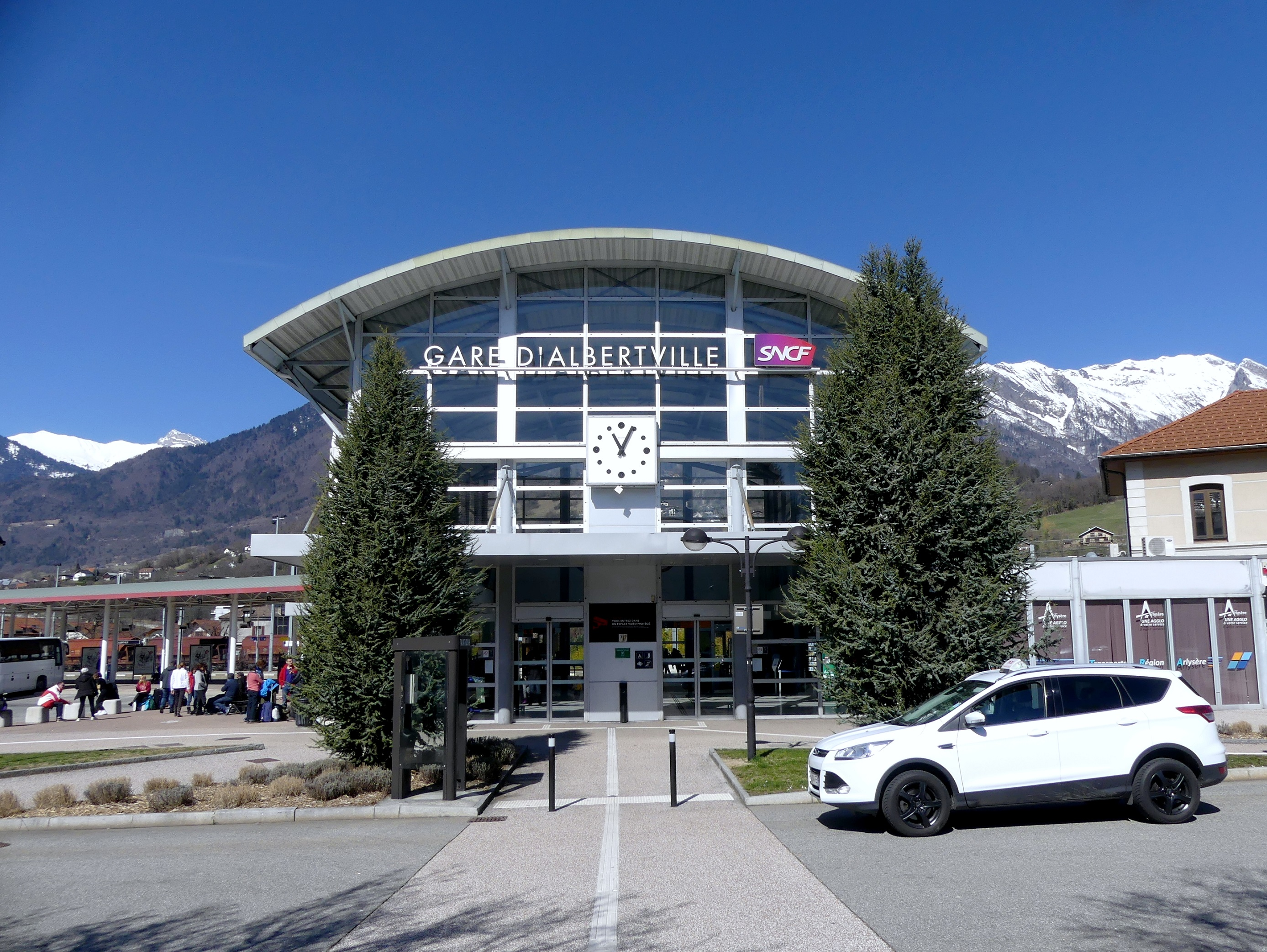 Sight, at the end of winter, of Albertville railway station building, in Savoie.